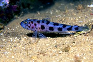 Picture of Thorogobius ephippiatus